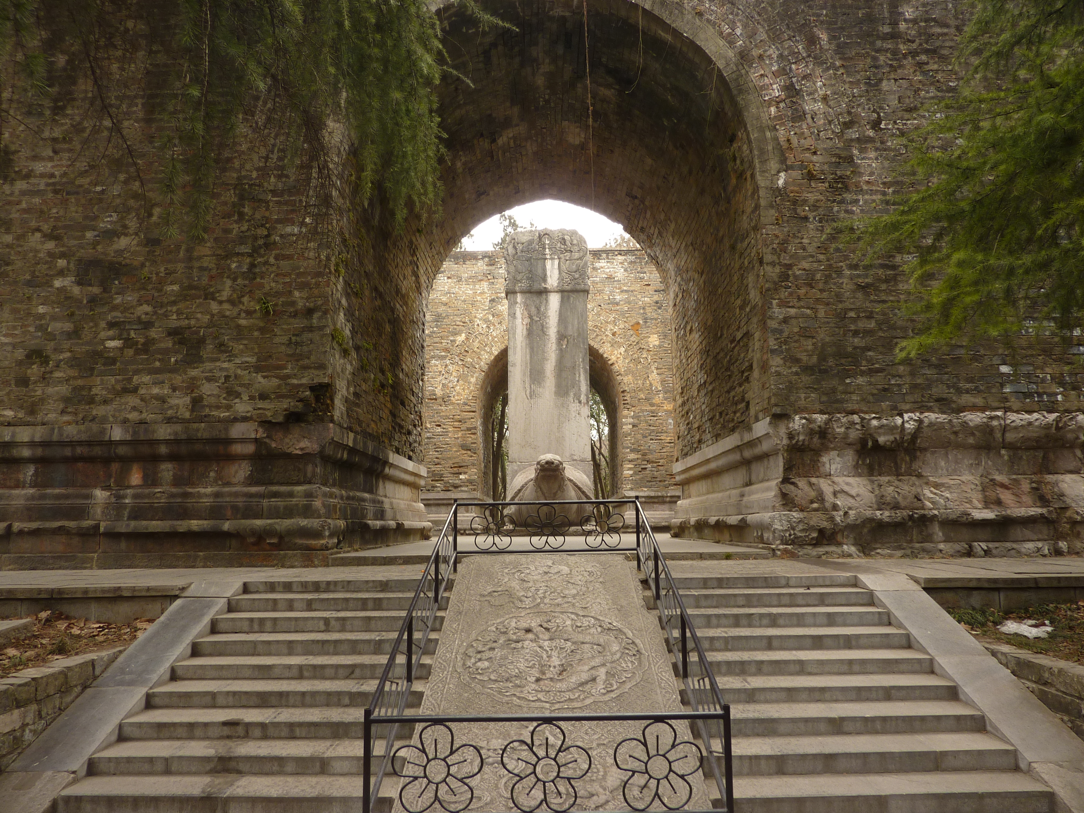 The mighty walls of the Sifangcheng Pavilion, outside view.